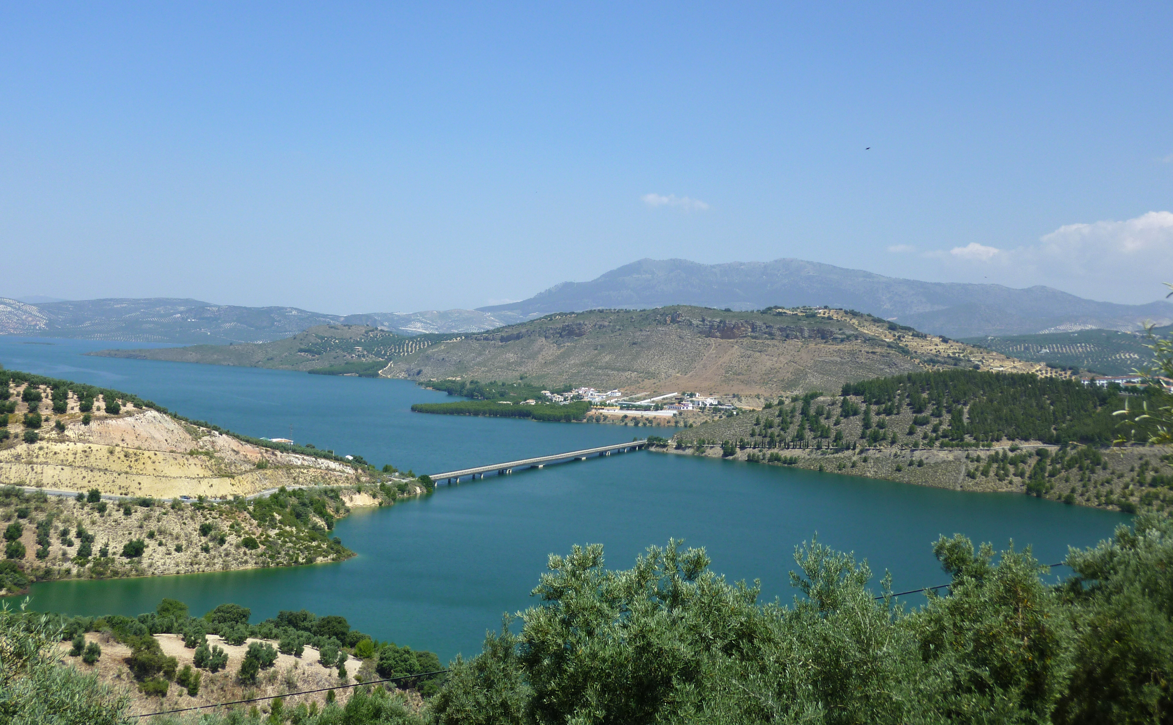 The water reservoir of Iznájar